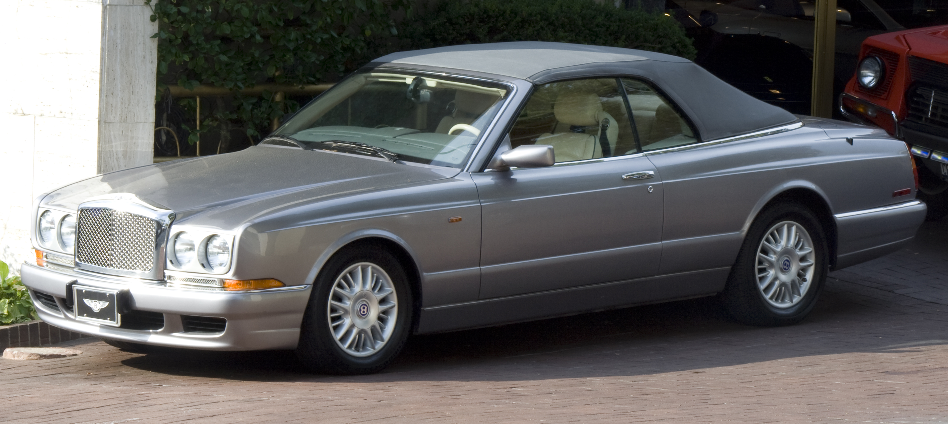 Bentley Azure, first generation (1995-2003)